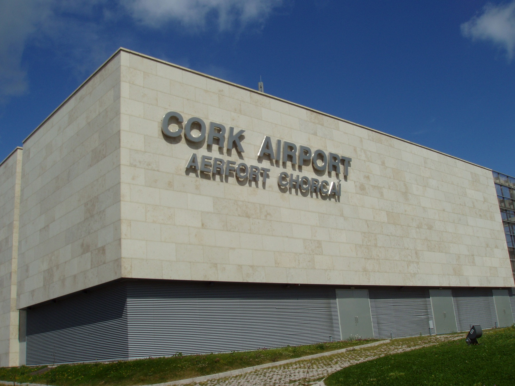 Airport Cork. Ireland.